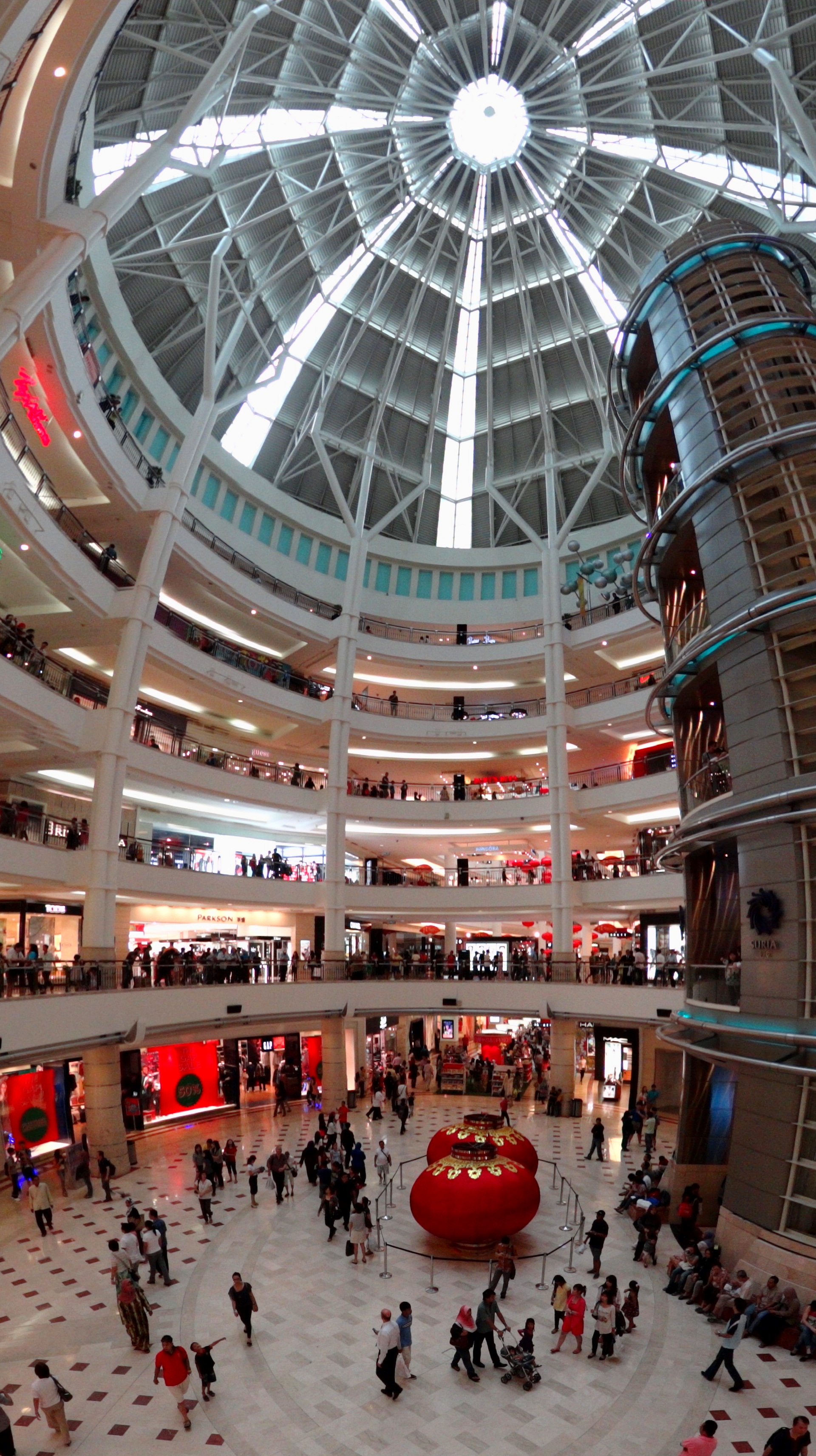 The atrium of the Suria KLCC Shopping Centre, housed in the Petronas Towers building complex.